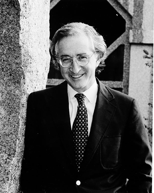 Milo Cleveland Beach, a scholar of Indian Art, came to the Smithsonian Institution in 1984 to serve as the assistant director for the Arthur M. Sackler Gallery. 1986.